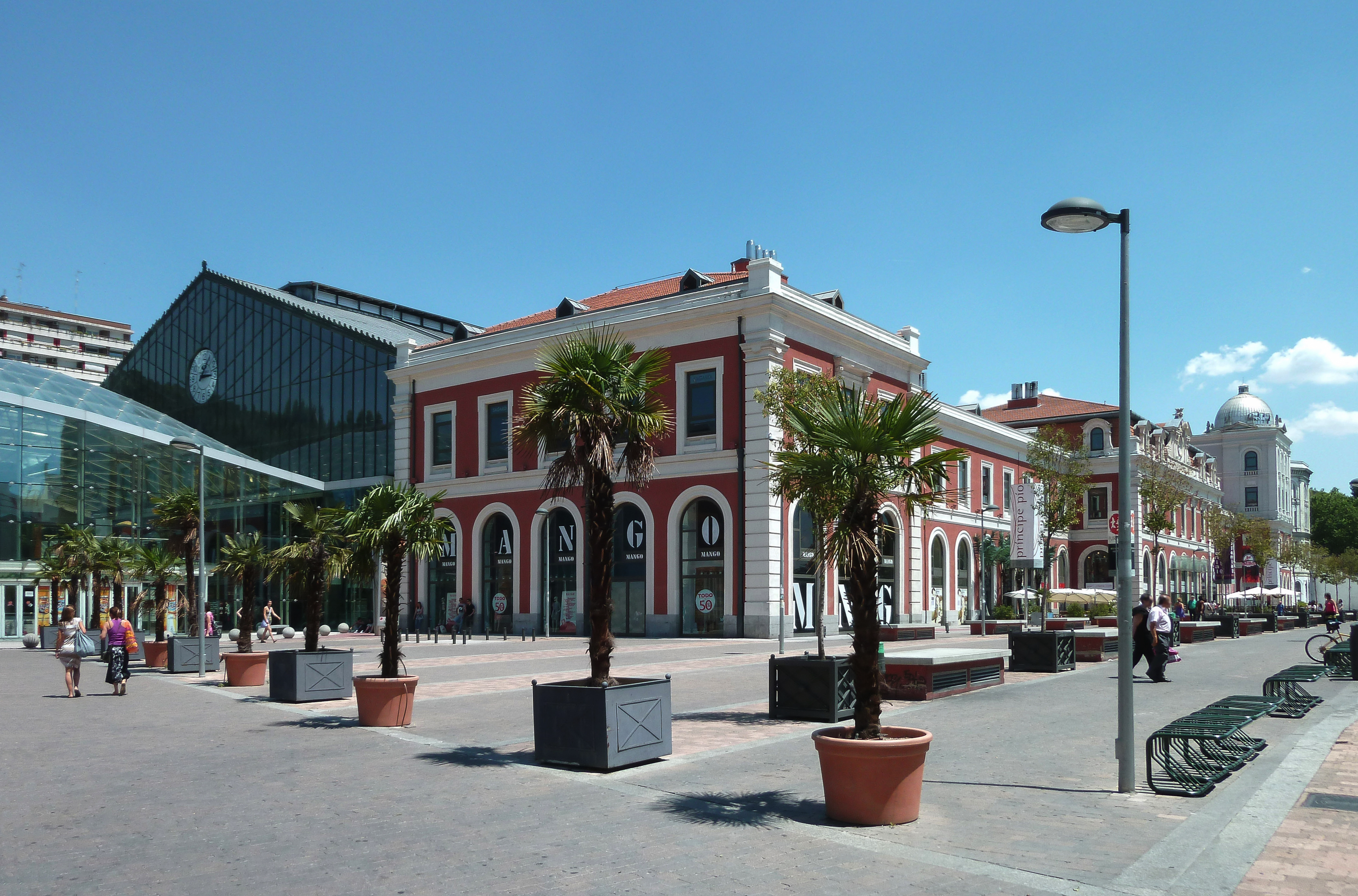 Façade of Príncipe Pío railway station in Madrid (Spain).